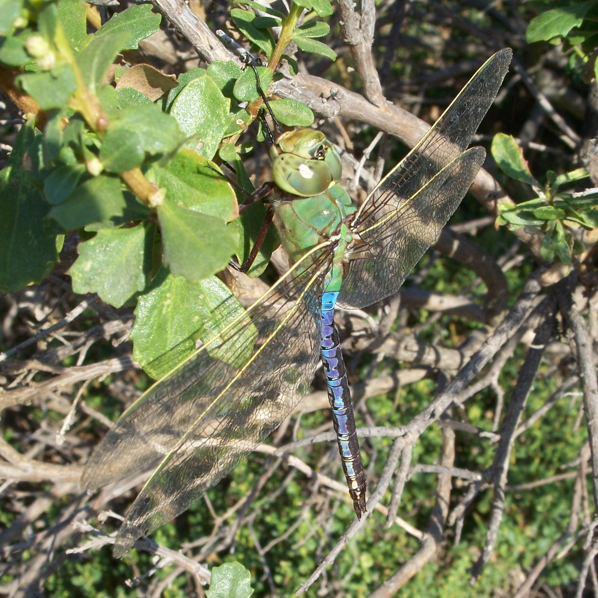 Common Green Darner. Male